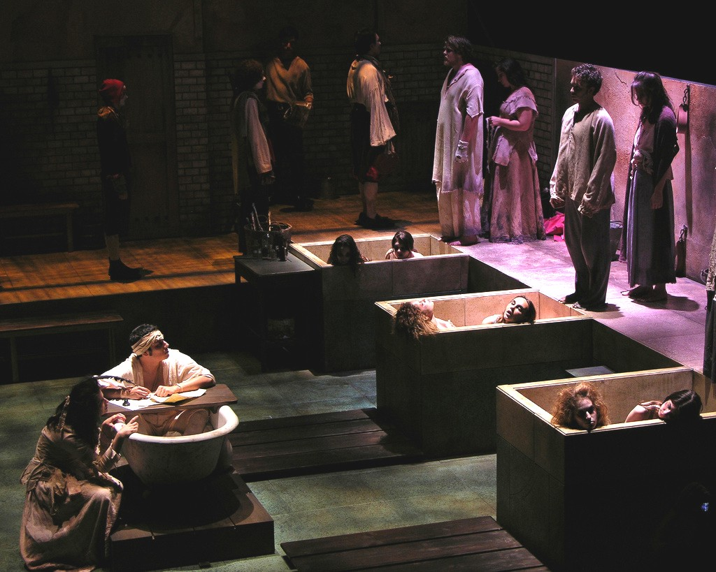 Theatre production of Peter Weiss' “The Persecution and Assassination of Jean-Paul Marat as Performed by the Inmates of the Asylum of Charenton Under the Direction of the Marquis de Sade” (“Marat/Sade”) at the University of California, San Diego, May 2005. Directed by: Stefan Novinski. Scenerey by: Melpomene Katakalos. Costumes by: Heather Premo. Lightning by: Jeff Fightmaster.